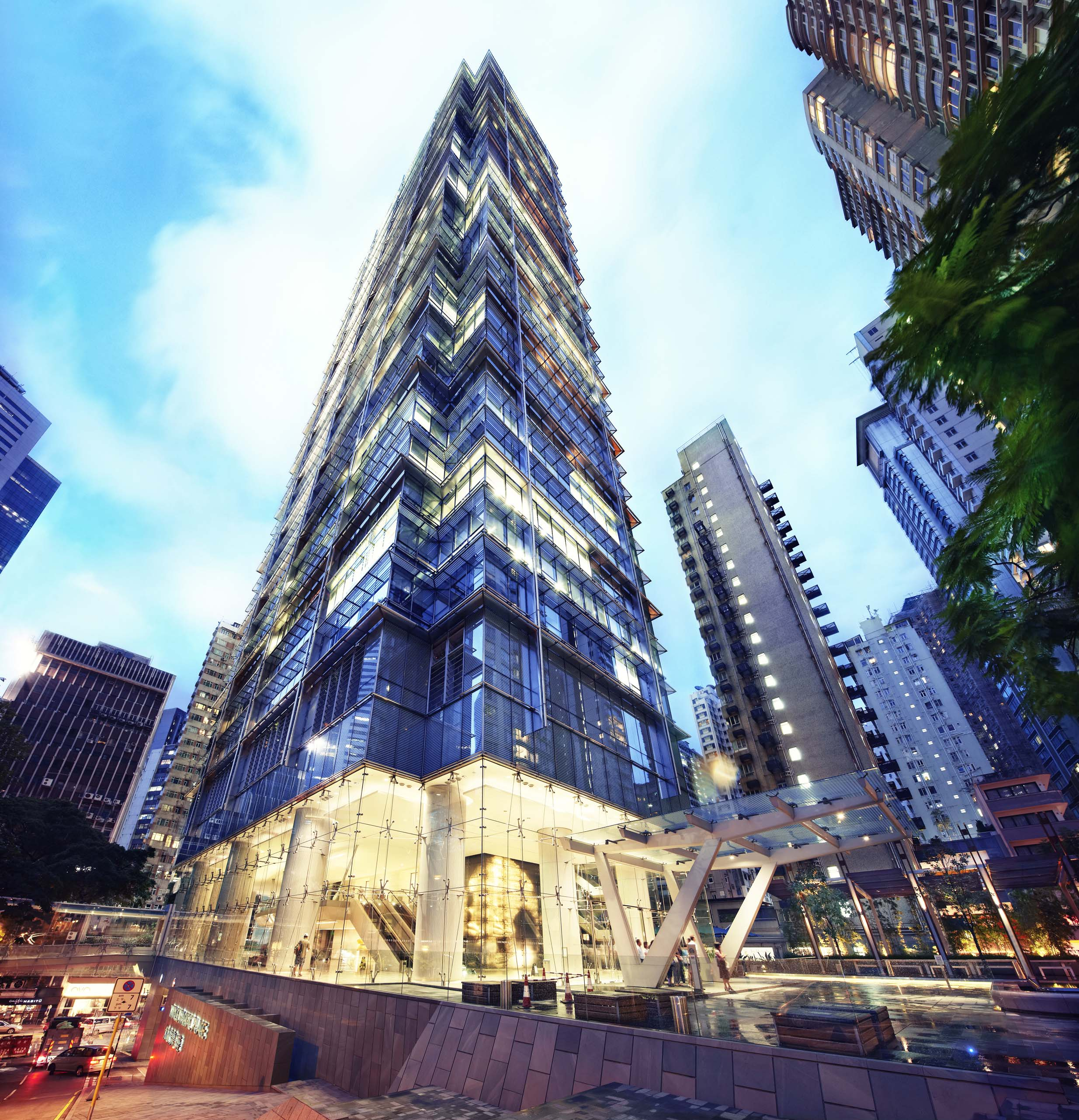 3PP Building Night